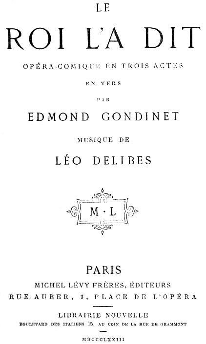 Léo Delibes - Le roi l'a dit - titlepage of the libretto, Paris 1873